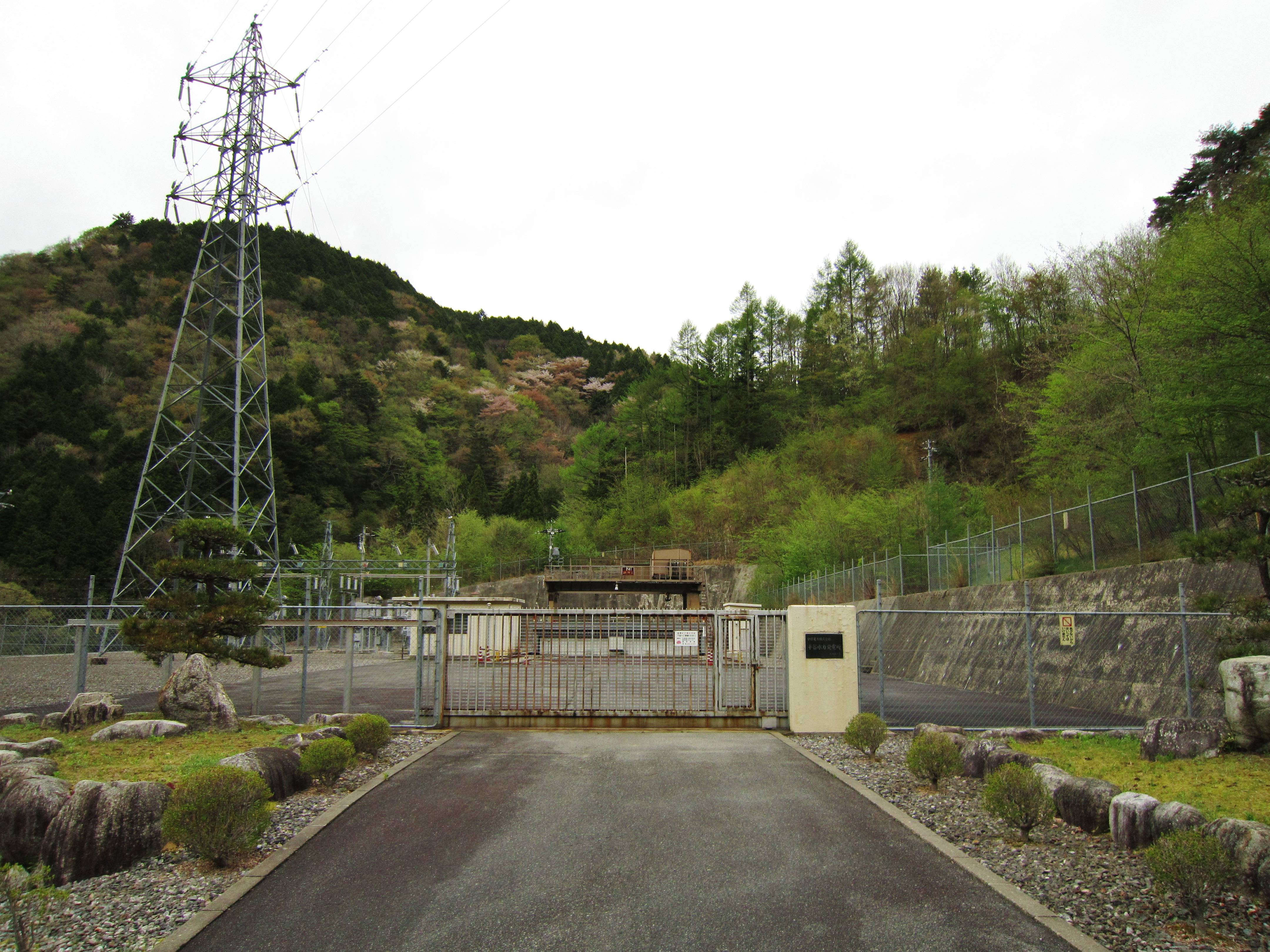 Hiraya power station.